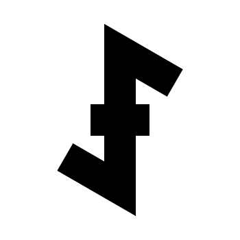 The "Wolfsangel" symbol.